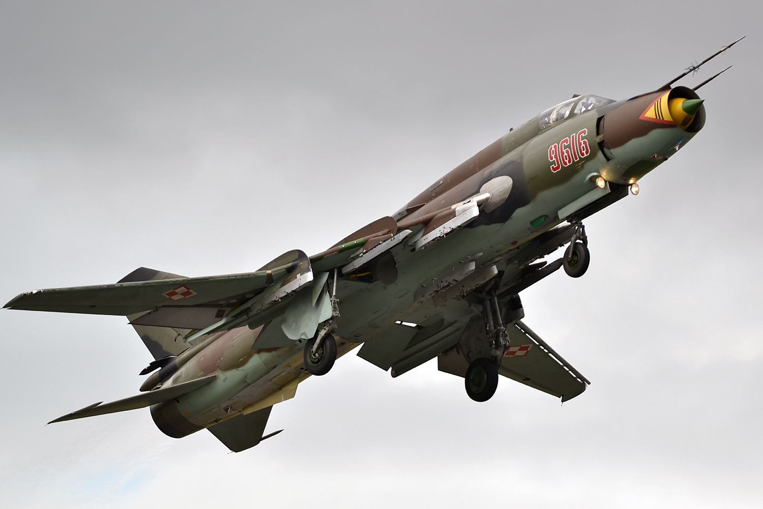 RIAT 2014 Fairford UK